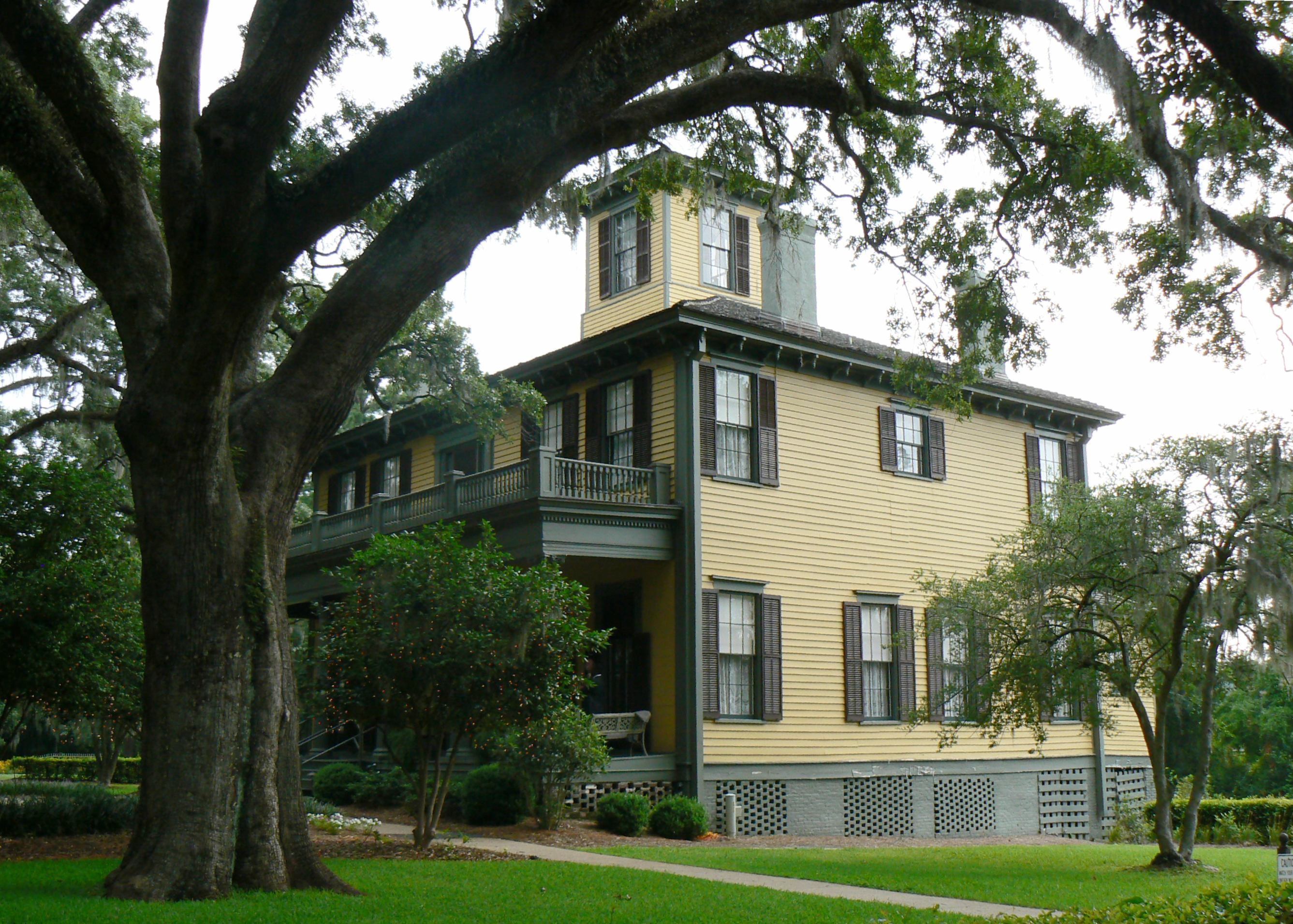 The Brokaw-McDougall House in Tallahassee, Florida. This house is on the U.S. National Register of Historic Places.